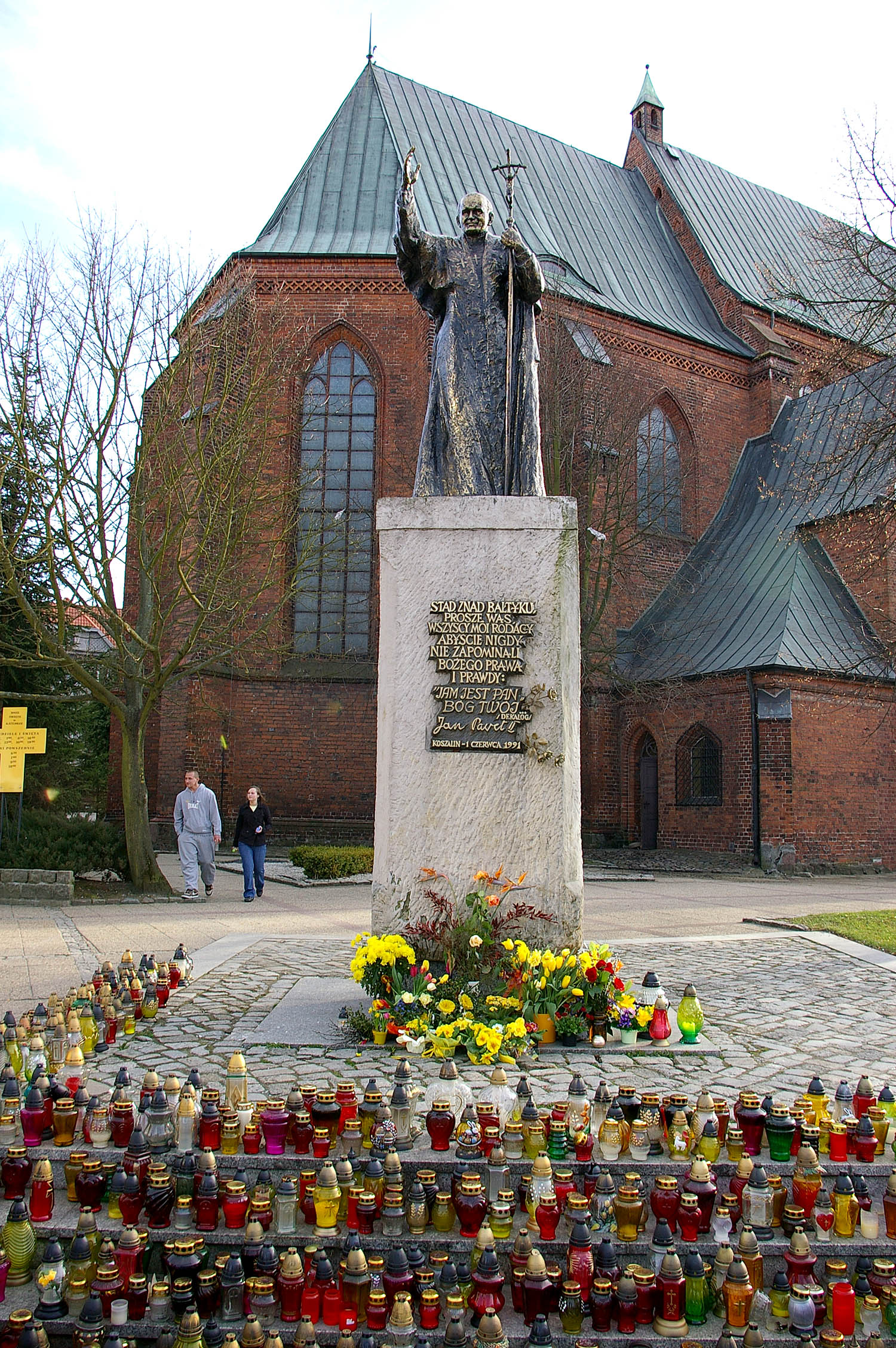 The town church in Koszalin, Polen and the statue of pope Johannes II.